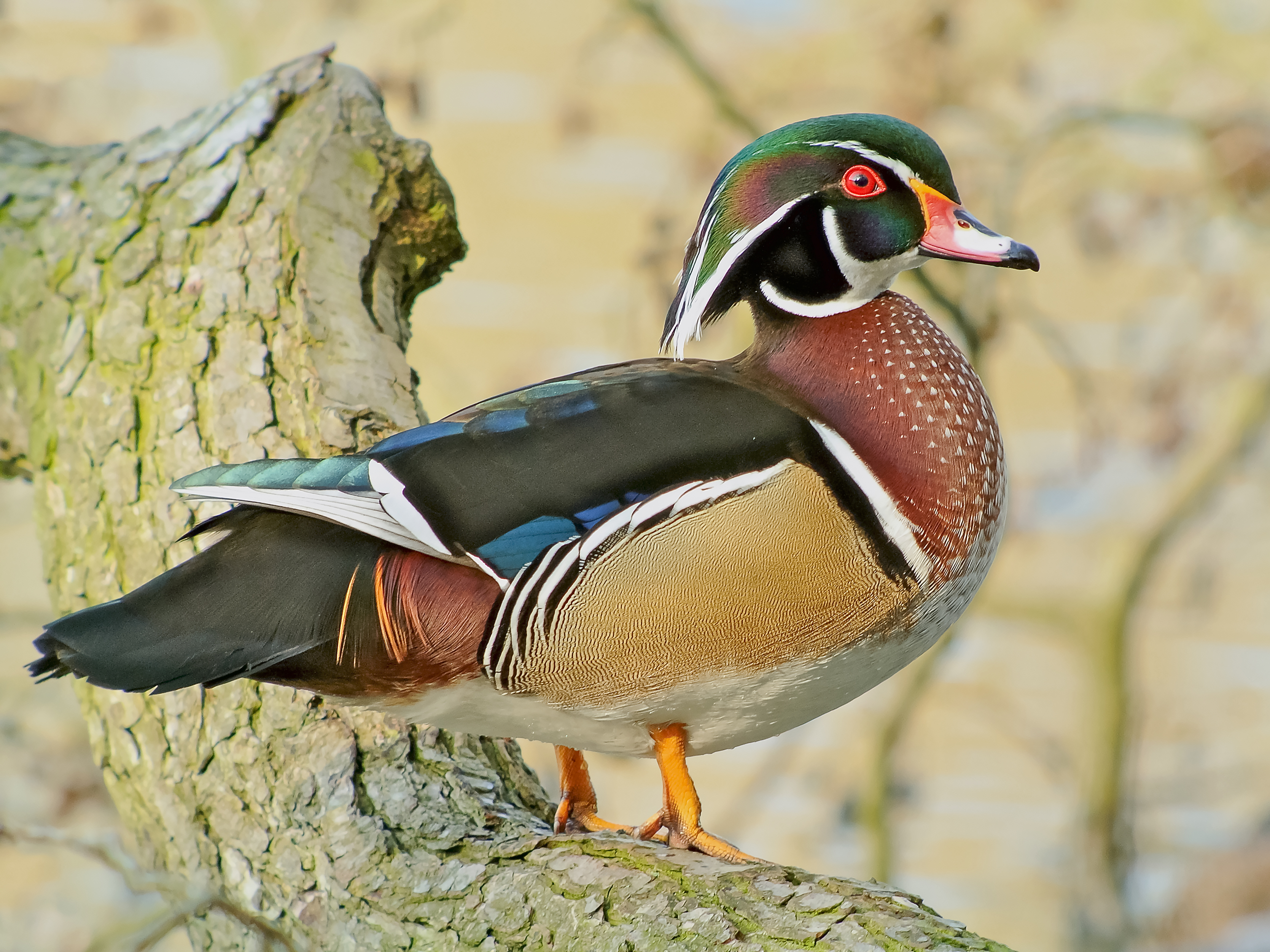 Male of Wood Duck (Aix sponsa) at Parc du Rouge-Cloître, Brussels. Photograph taken by digiscoping with Swarovski ATM 80 HD 30 X, Nikon 1V1 + 10-30 mm lens (Adapter DCB)